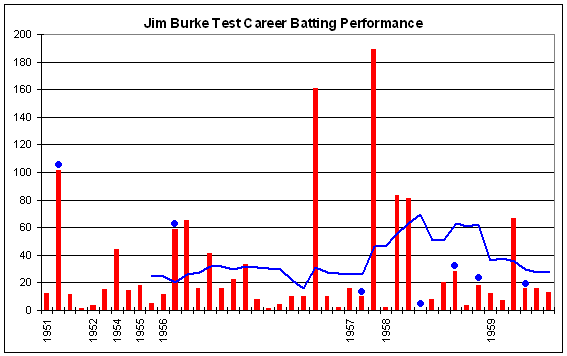 Test batting chart of Jim Burke (cricketer). Red columns are the runs in the innings. Blue dots indicate not outs. Blue line is average in the last ten innings. Thanks to Raven4x4x for providing the template.